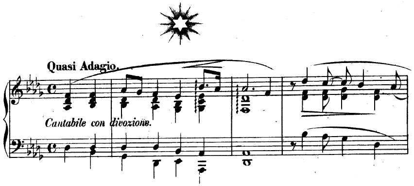 Sheet Music, 1850 Breitkopf, Consolations S.172/4, Opening Bars